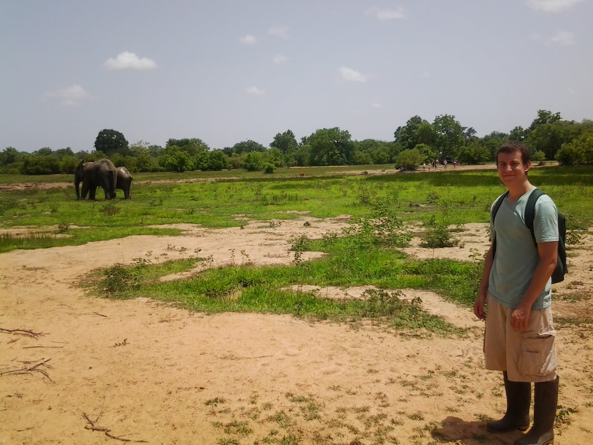 If you are lucky, you can take a shot with the elephants at the Mole National Park.